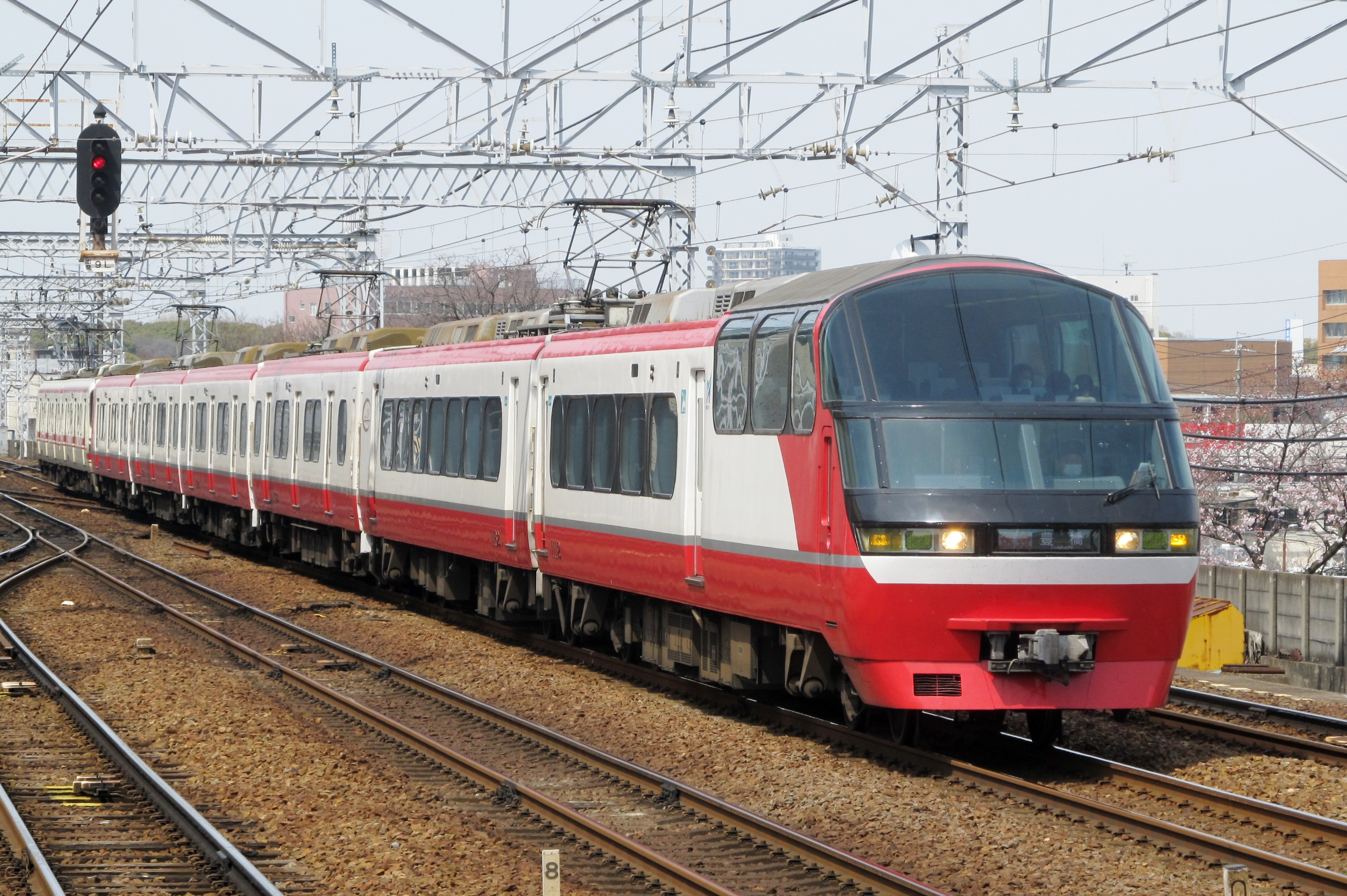 Meitetsu refurbished 1200 series First Class Cars. Rapid Limited Express bound for Toyohashi.